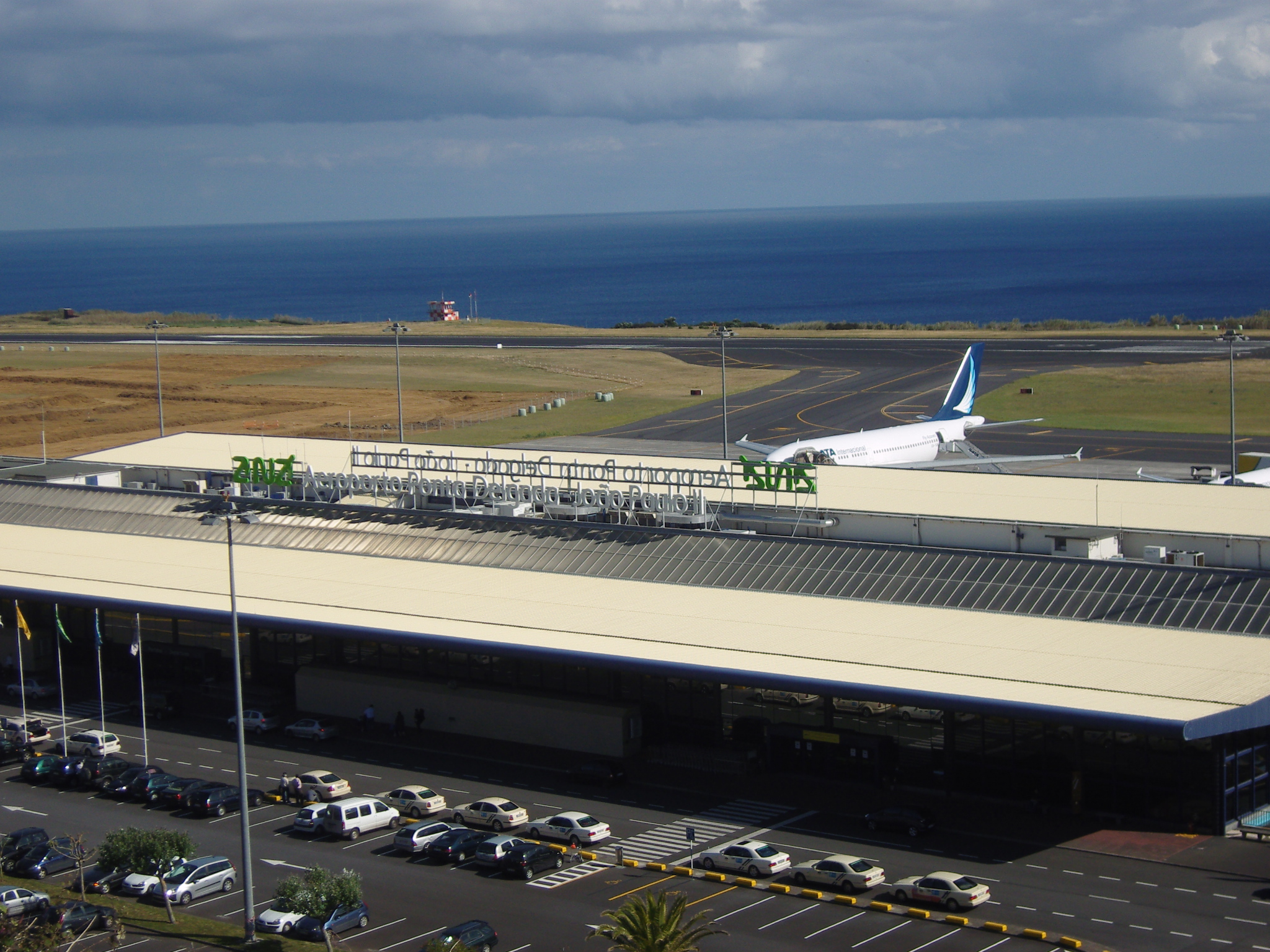 Airport Ponta Delgada